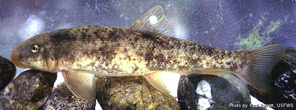 Catostomus santaanae USFWS photo